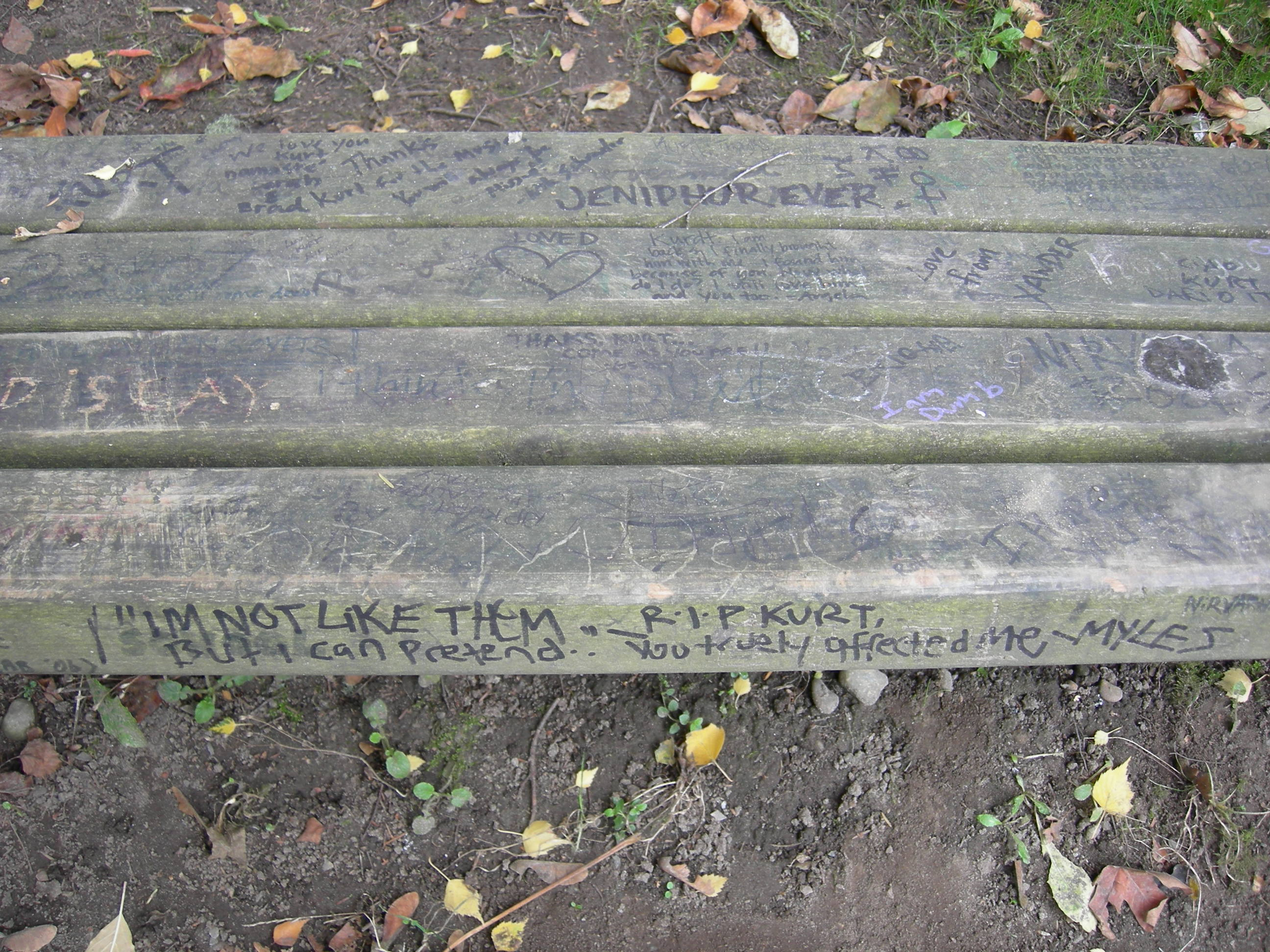 The bench in Viretta Park, Seattle, Washington, has been heavily graffitied as a de facto memorial to Kurt Cobain, who lived the last part of his life in a home directly adjacent to the park.